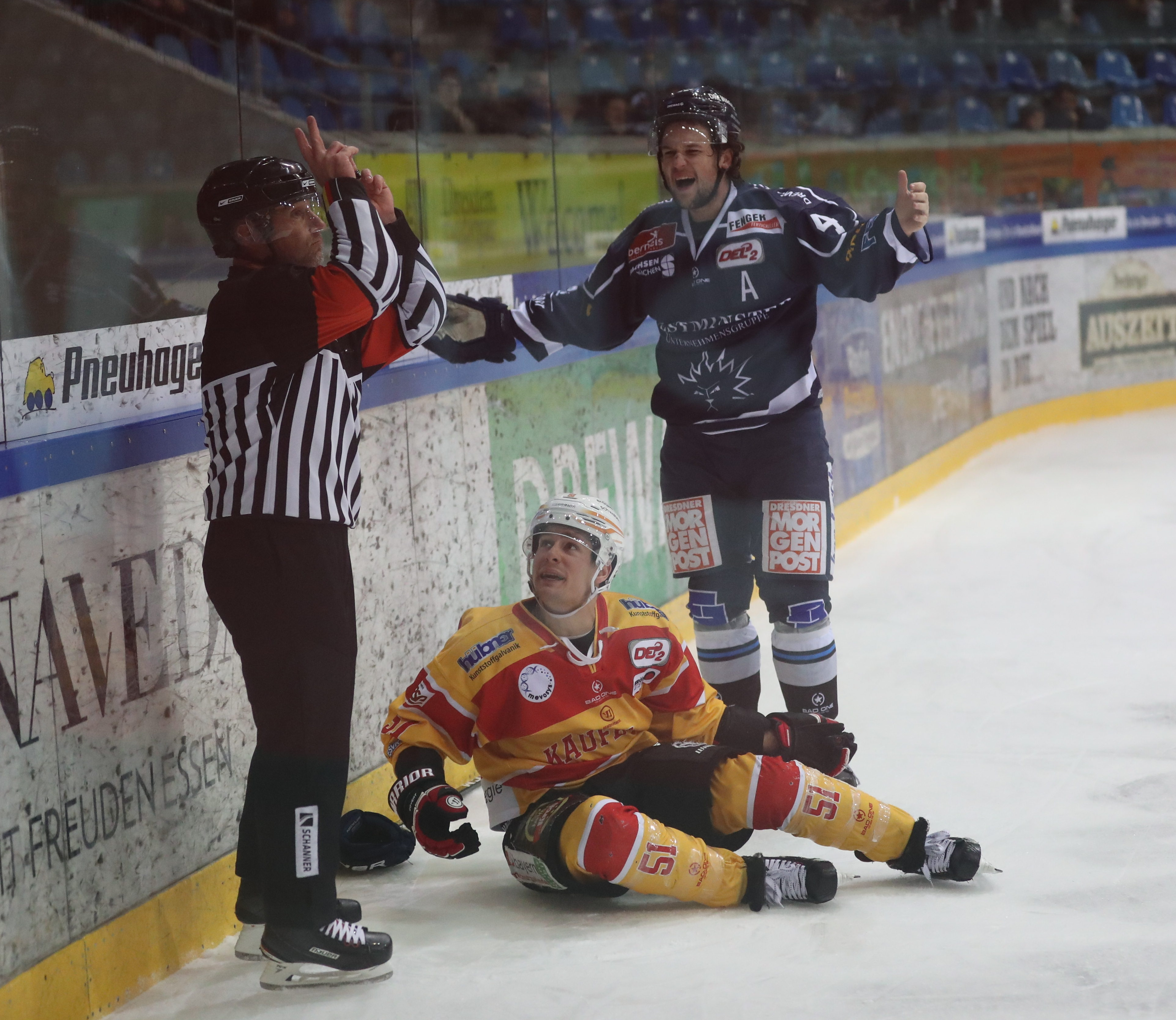 DEL2, Season 2018/19, Main round, 36th match day: Dresdner Eislöwen vs. ESV Kaufbeuren 6:3 (3:1; 1:2; 2:0)